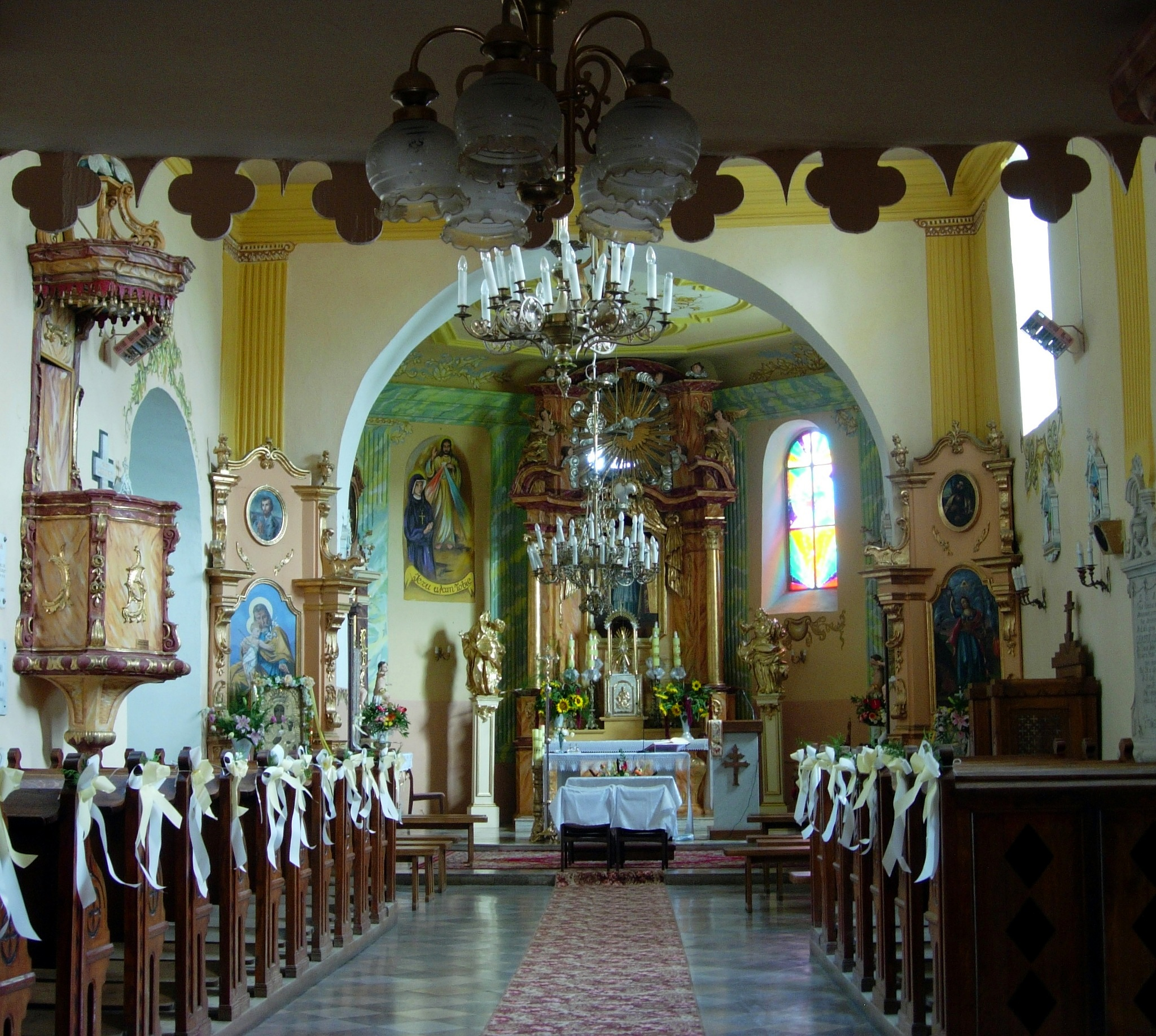 The inside of the church in Momina, Poland